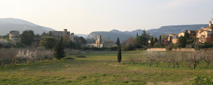 Town of Lourmarin in Vaucluse, France